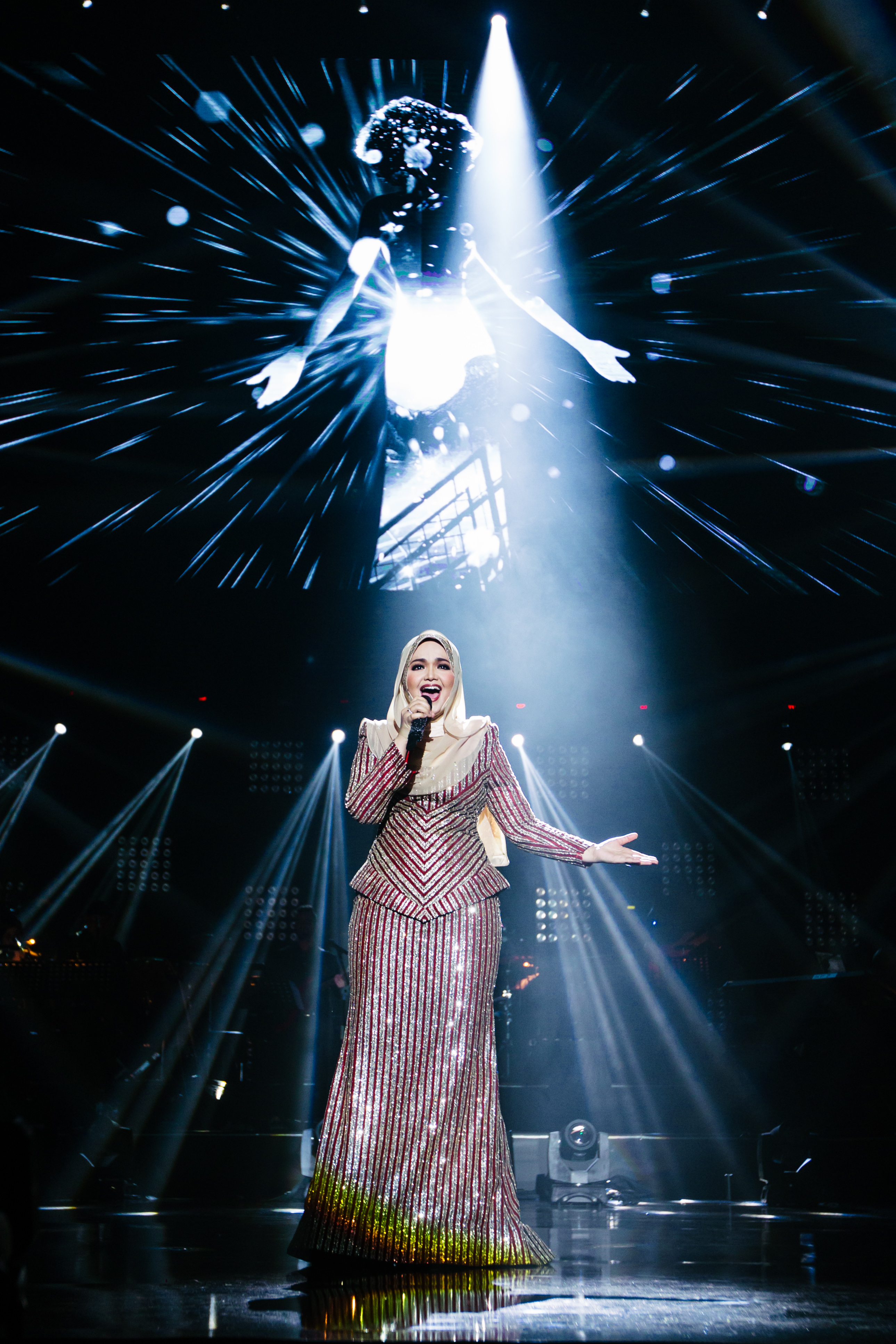 Siti Nurhaliza performing "Memories", a previously unreleased song by Whitney Houston at her Dato' Siti Nurhaliza & Friends Concert on 2 April 2016 at Stadium Negara. Original source is from All Is Amazing's Official Facebook Account.